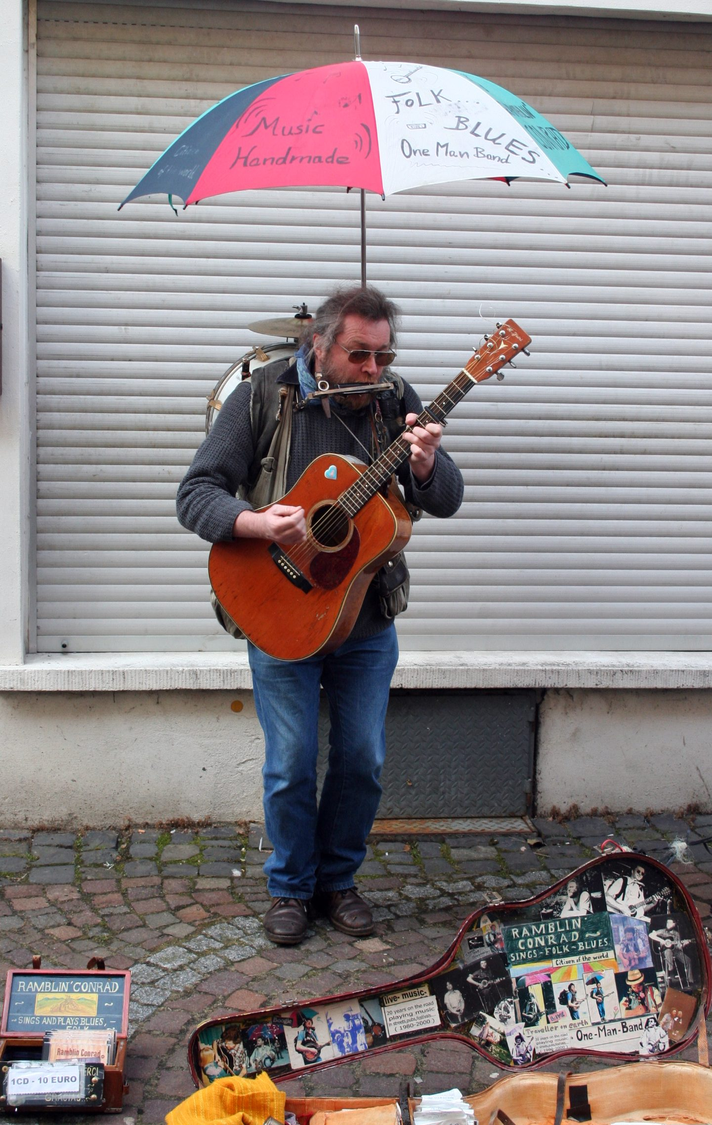 Ramblin' Conrad, a one man band and street musician, touring around the world since more than 20 years.